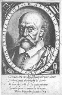 Portrait of Antoine Caron